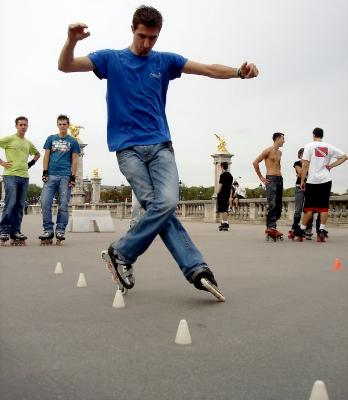 Mark Kempton